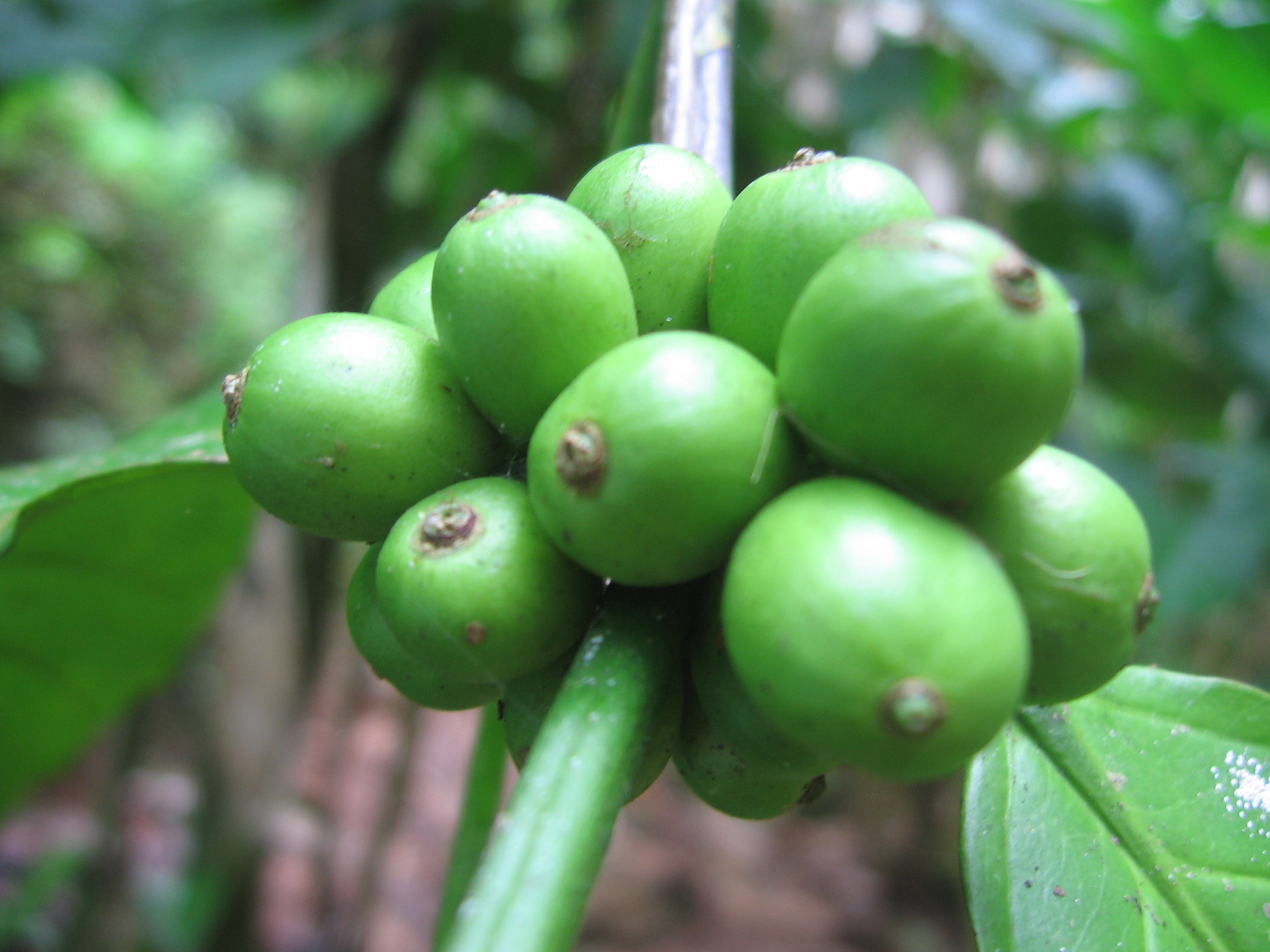 Coffee